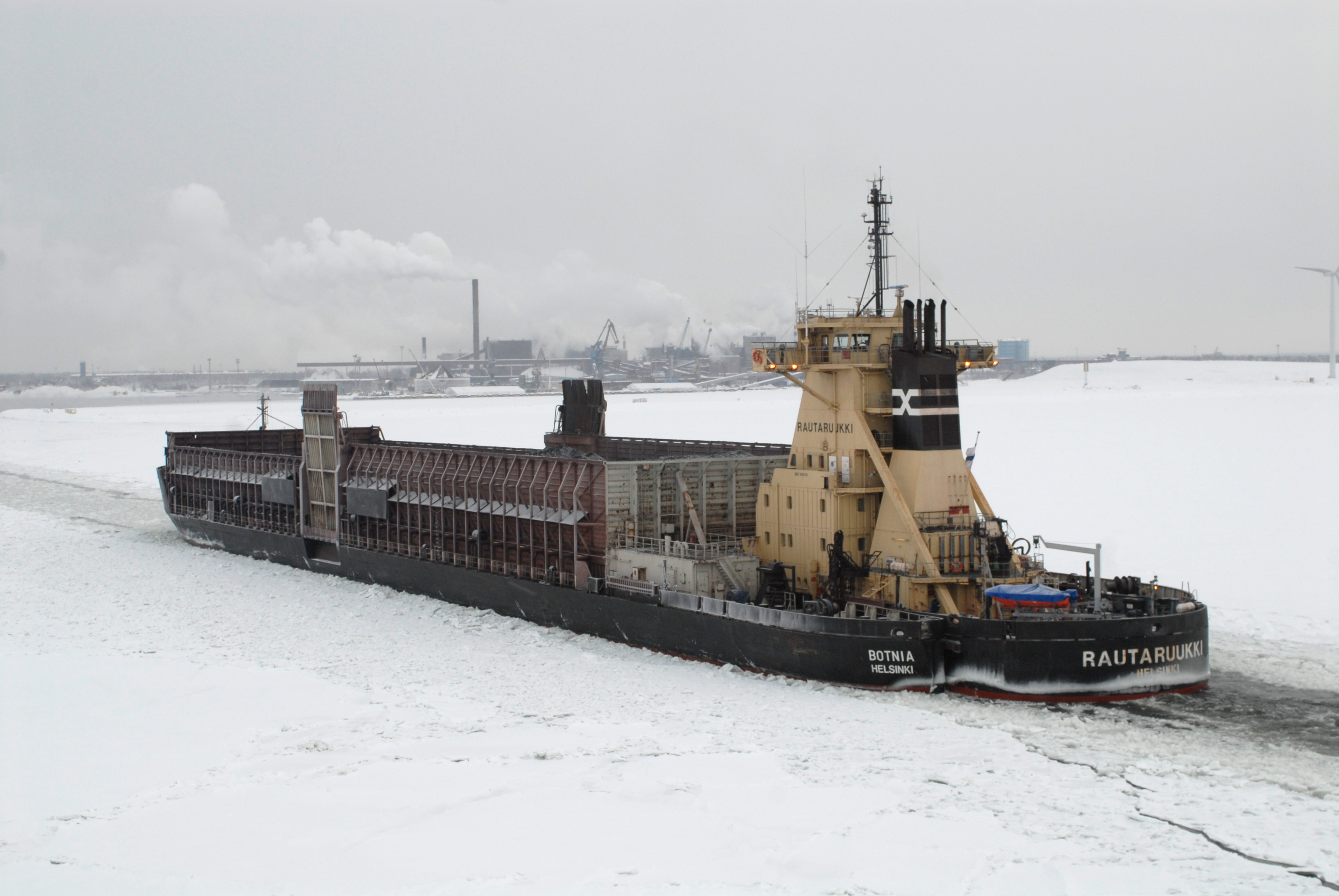 Pusher Rautaruukki (IMO 8418174) and barge Botnia at Raahe fairway on 7 February 2011.